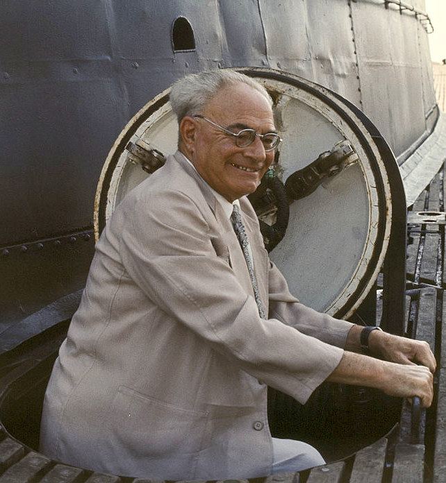 The journalist and writer Vittorio Giovanni Rossi leaves the submarine Evangelista Torricelli (S 512). Italy, 1965.